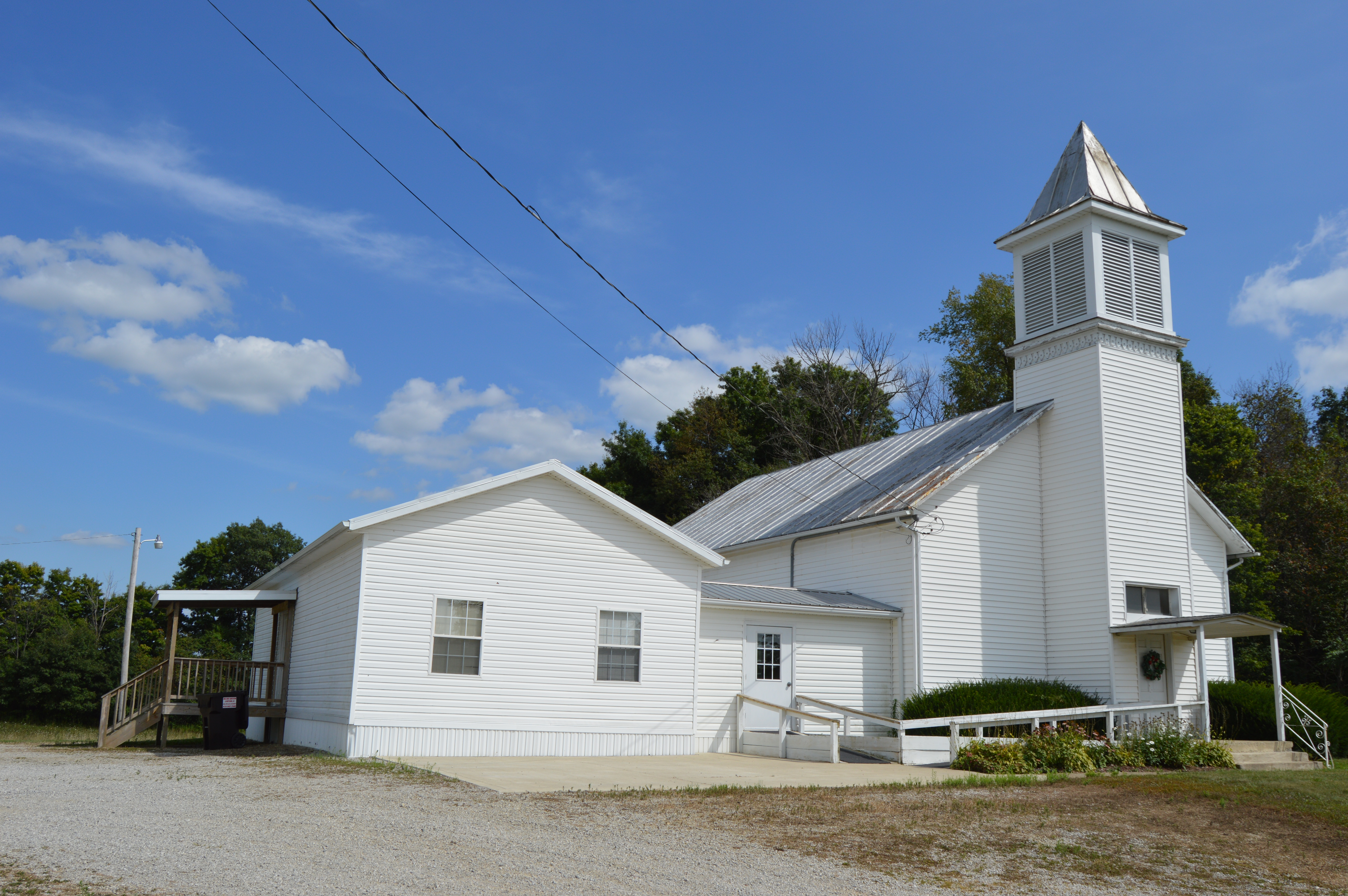 Front and northern side of the Pulaskiville Community Bible Church, located at 4865 County Road 98 east of Mount Gilead in Franklin Township, Morrow County, Ohio, United States.